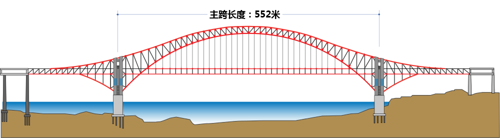 The main span of Chaotianmen Bridge